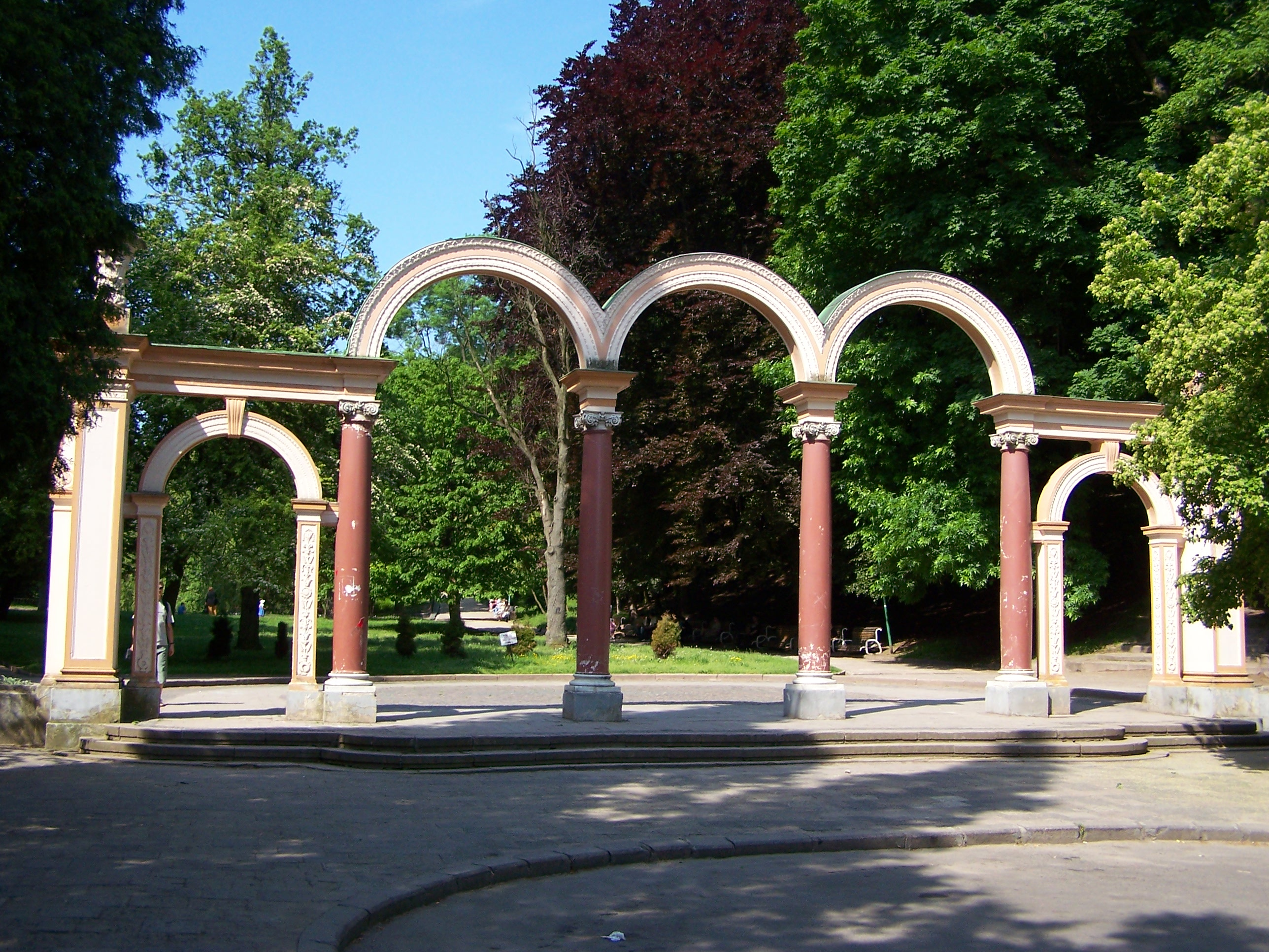 Stryjski Park in Lviv (Ukraine).